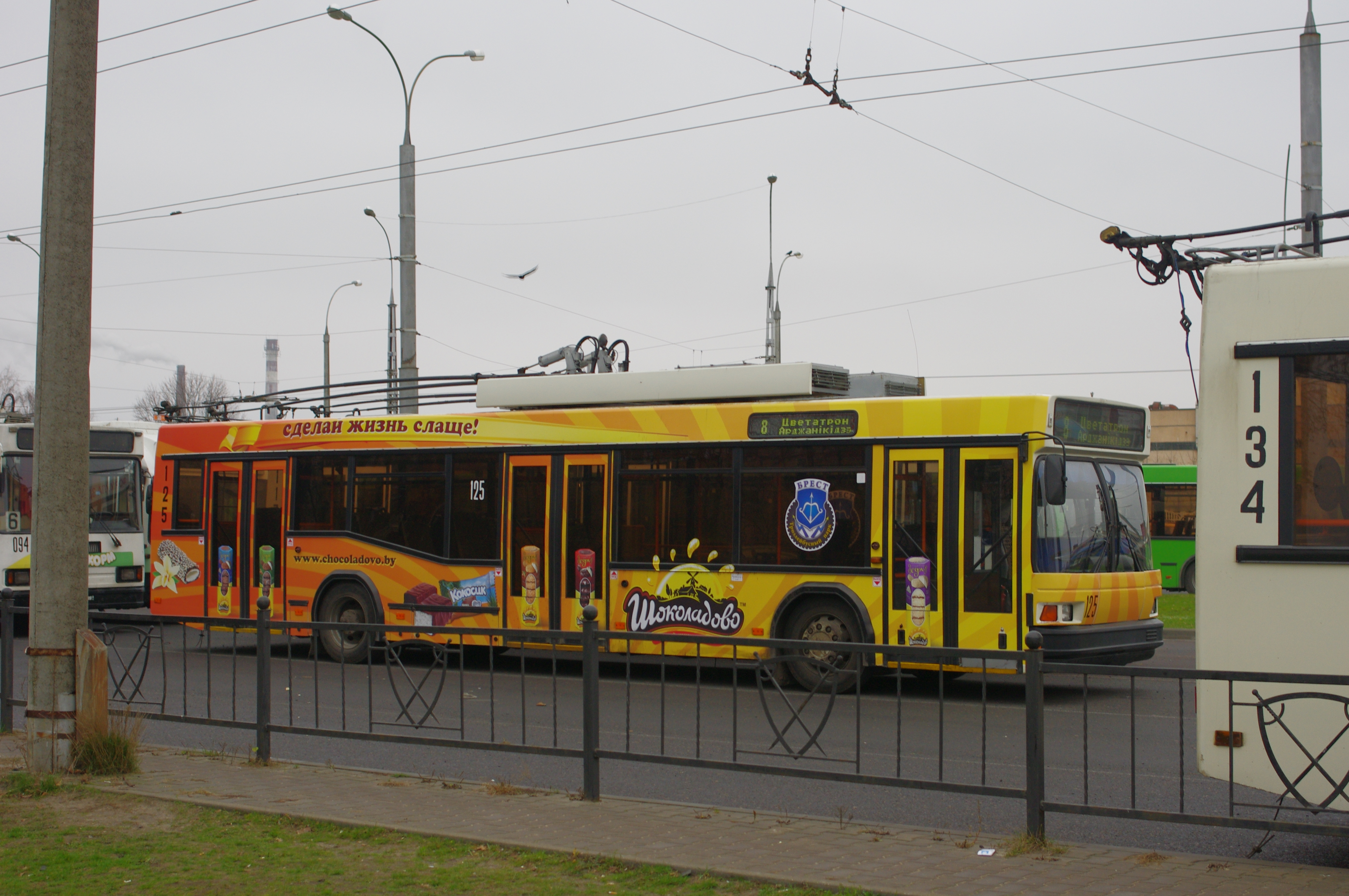 Brest trolleybus 125 20131117_014